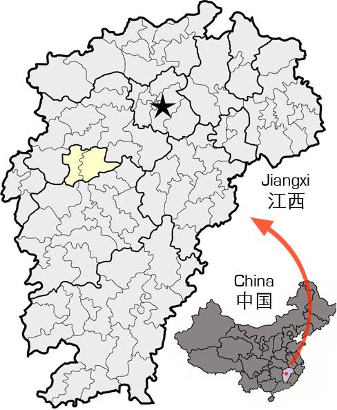 Map showing the location of Xinyu within Jiangxi Province China